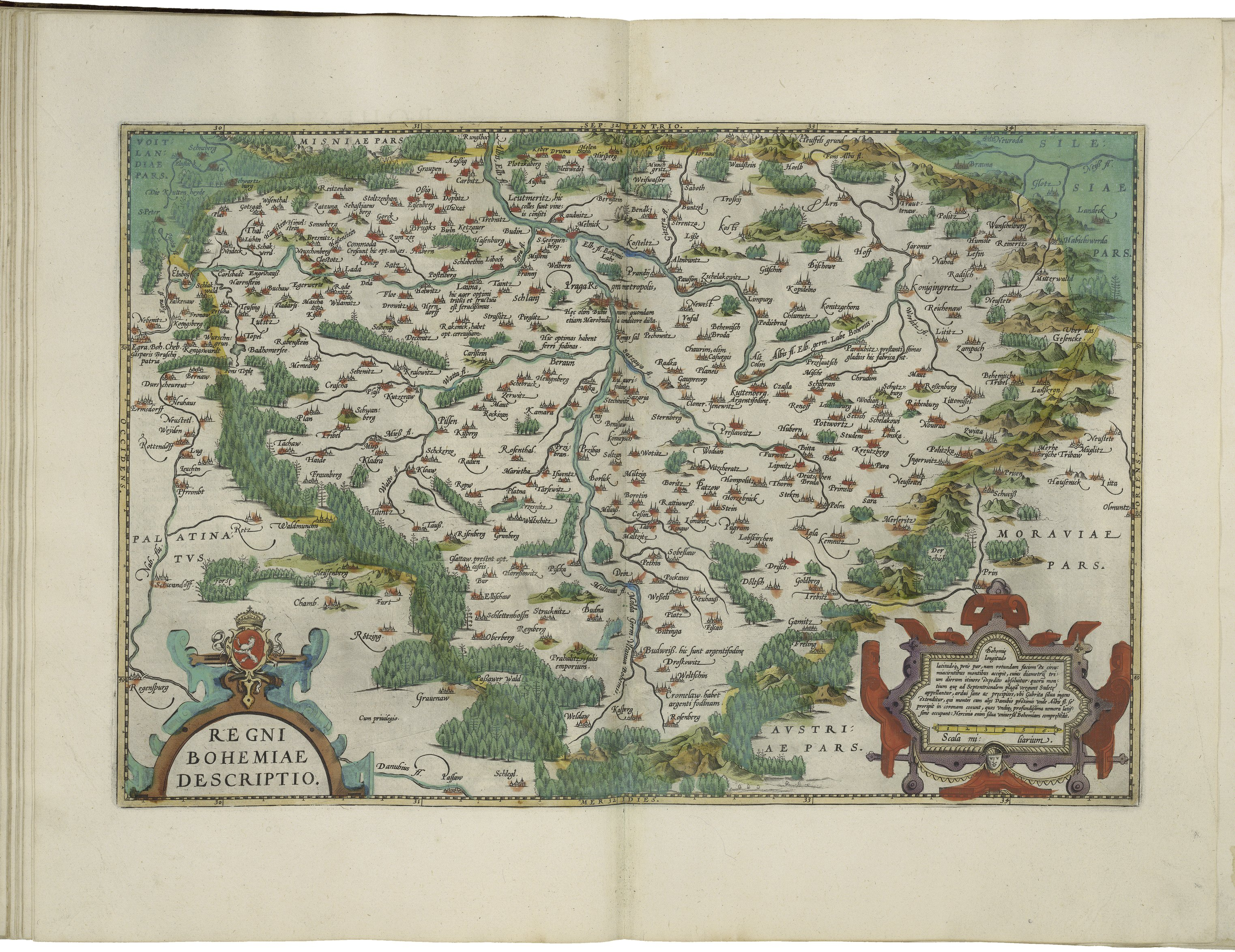 Map of Bohemia by Abraham Ortelius. Theatrum Orbis Terrarum. London, 1606 (i.e. 1608?). Plate 60.